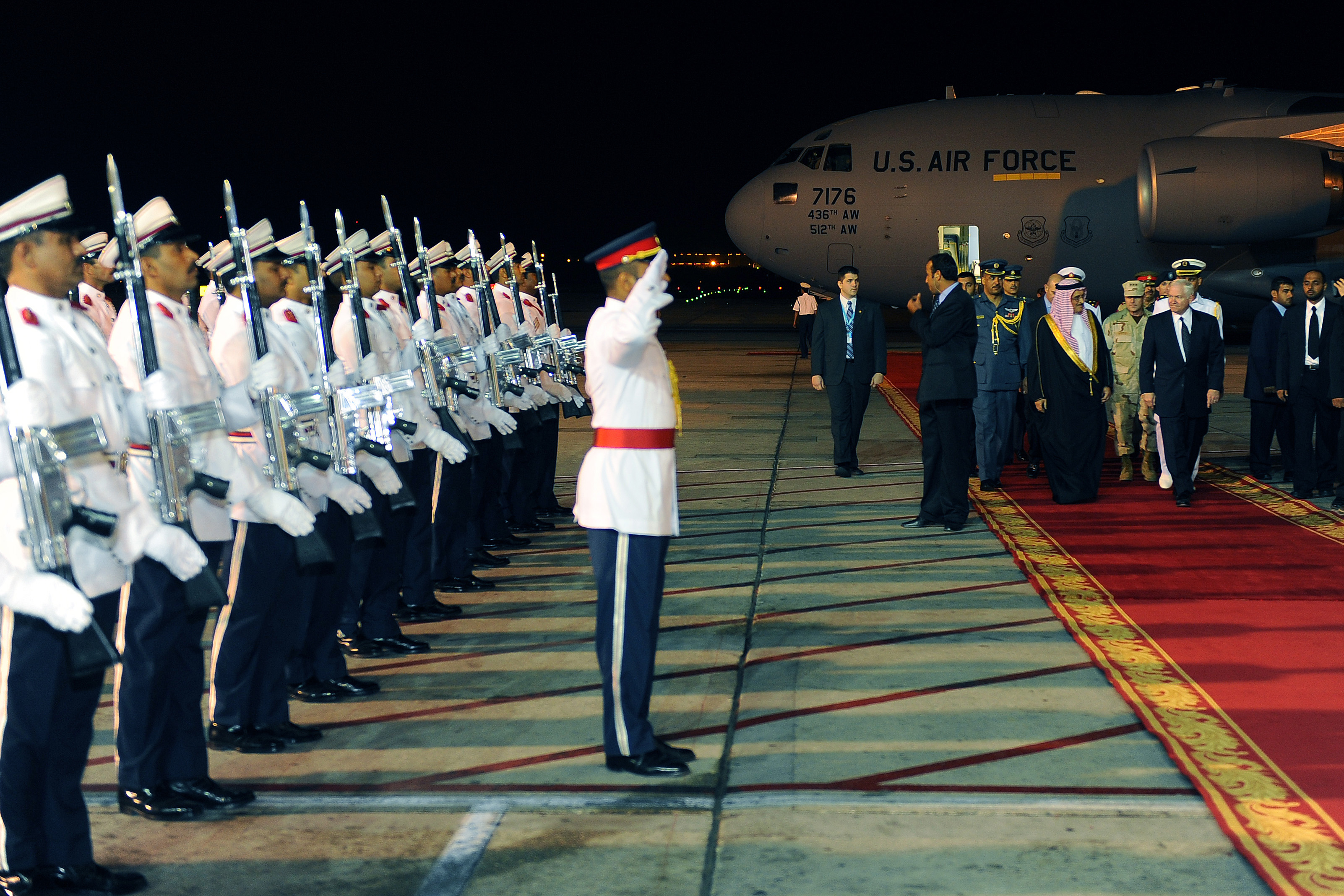 Bahrain's Minister of State for Defense Shaykh Muhammad bin Abdulla al-Khalifa, along with an honor cordon, greets U.S. Defense Secretary Robert M. Gates upon his arrival at Manama, Bahrain, Dec. 12, 2008. Gates is in Bahrain to meet with the country's leaders on defense issues and attend the International Institute for Strategic Studies Manama Dialogue, a forum for the national security establishments of the participating states to exchange views on regional security challenges.